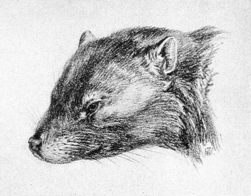 Life restoration of Cimolomys (formerly Ptilodus) gracilis from W.B. Scott's (1858–1947) A History of Land Mammals in the Western Hemisphere. New York: The Macmillan Company.